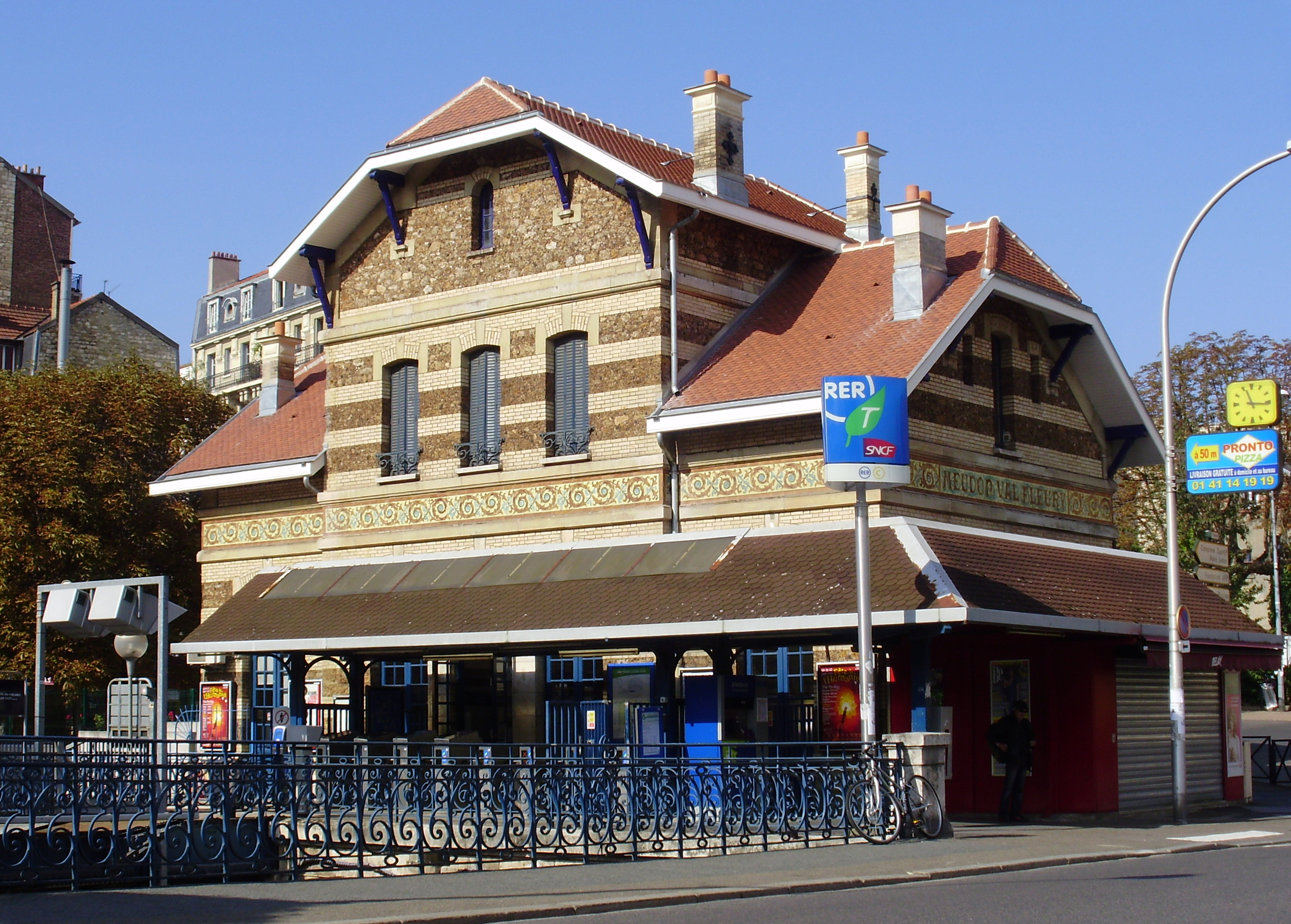 Meudon - Val Fleury station, in Meudon, Hauts-de-Seine, France (station building, tracks side)